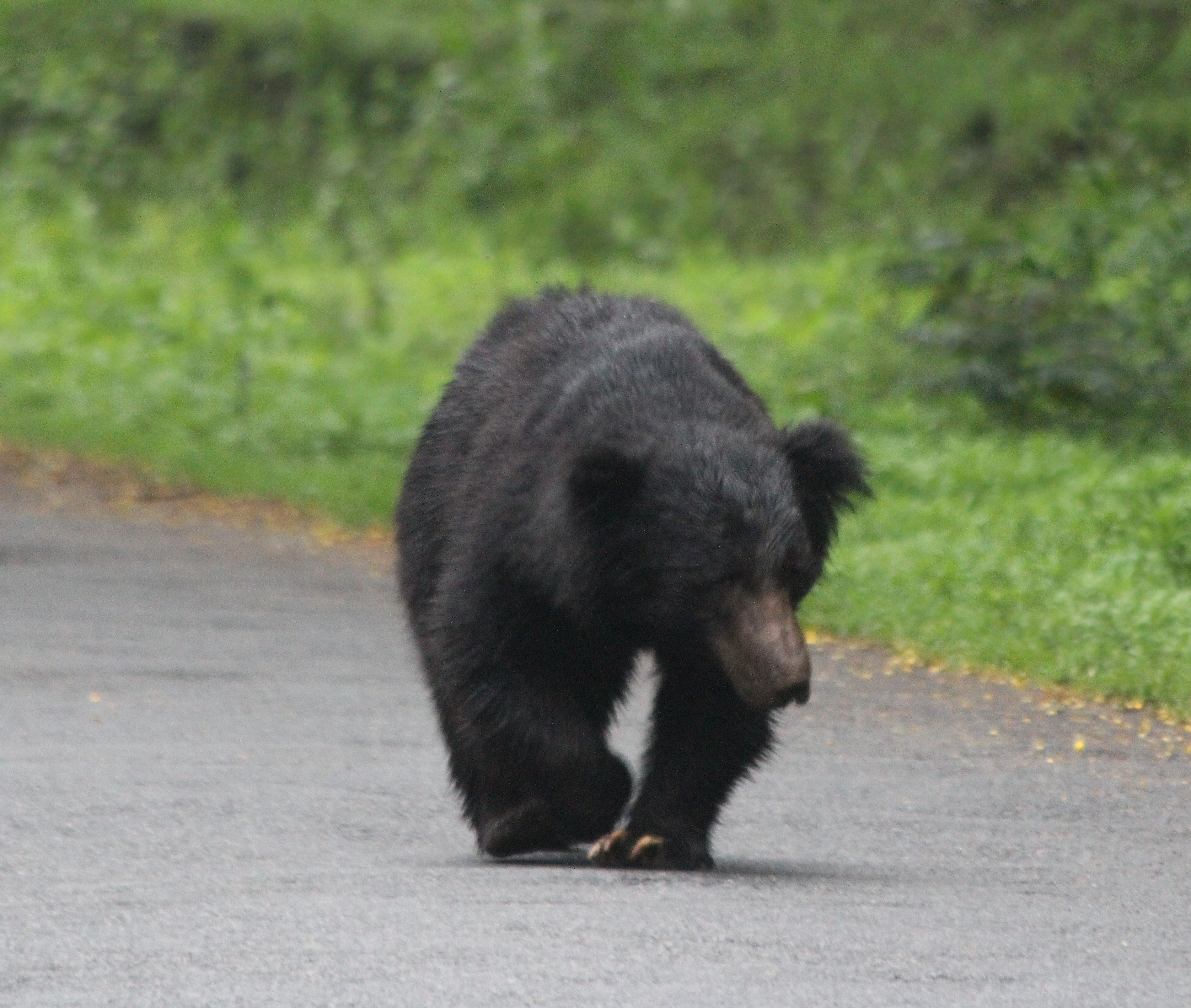 shot in nagarhole national park